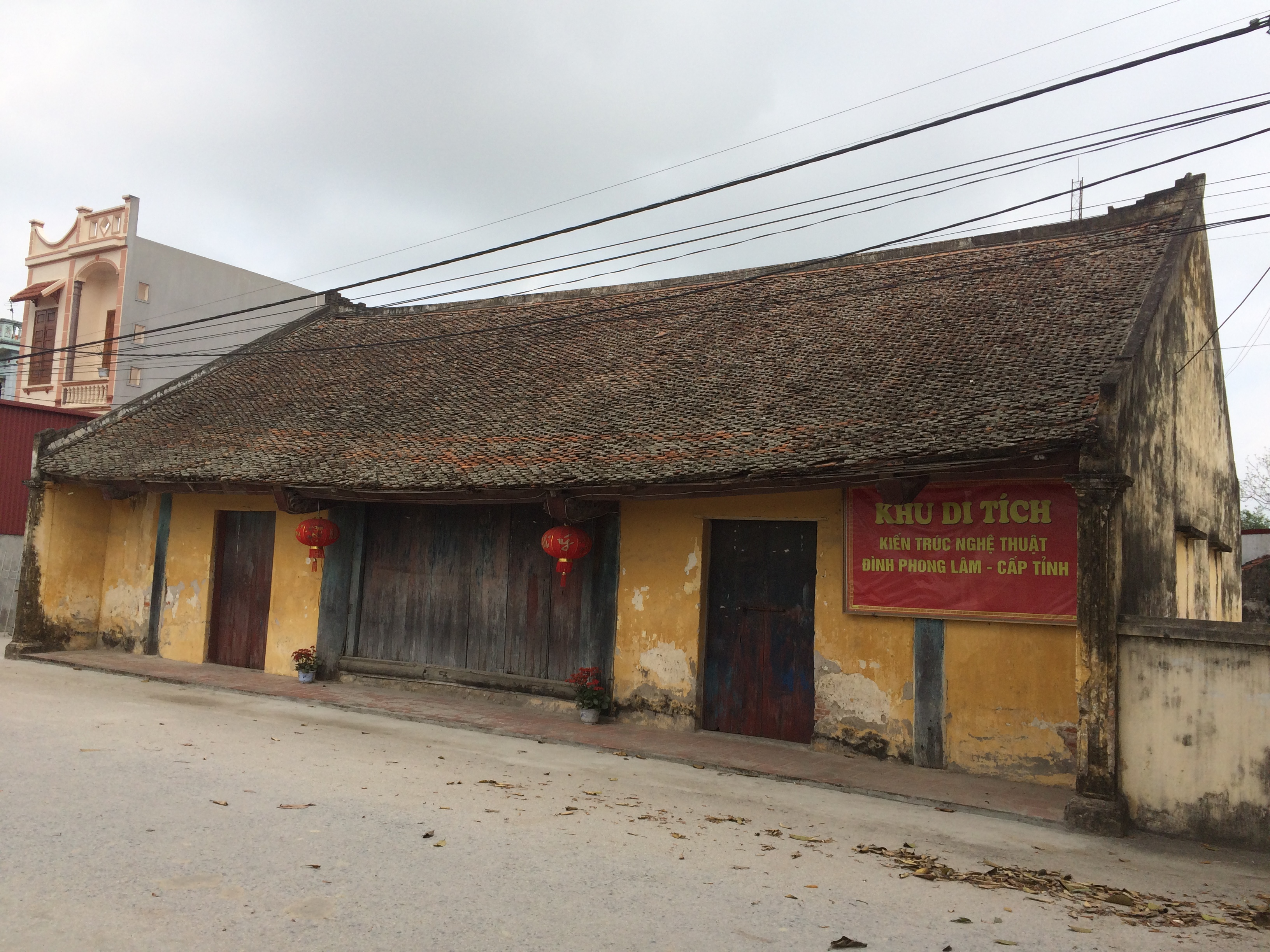 Phong Lâm communal house